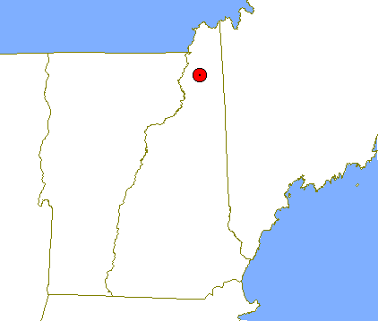 Location map of Erving's Location